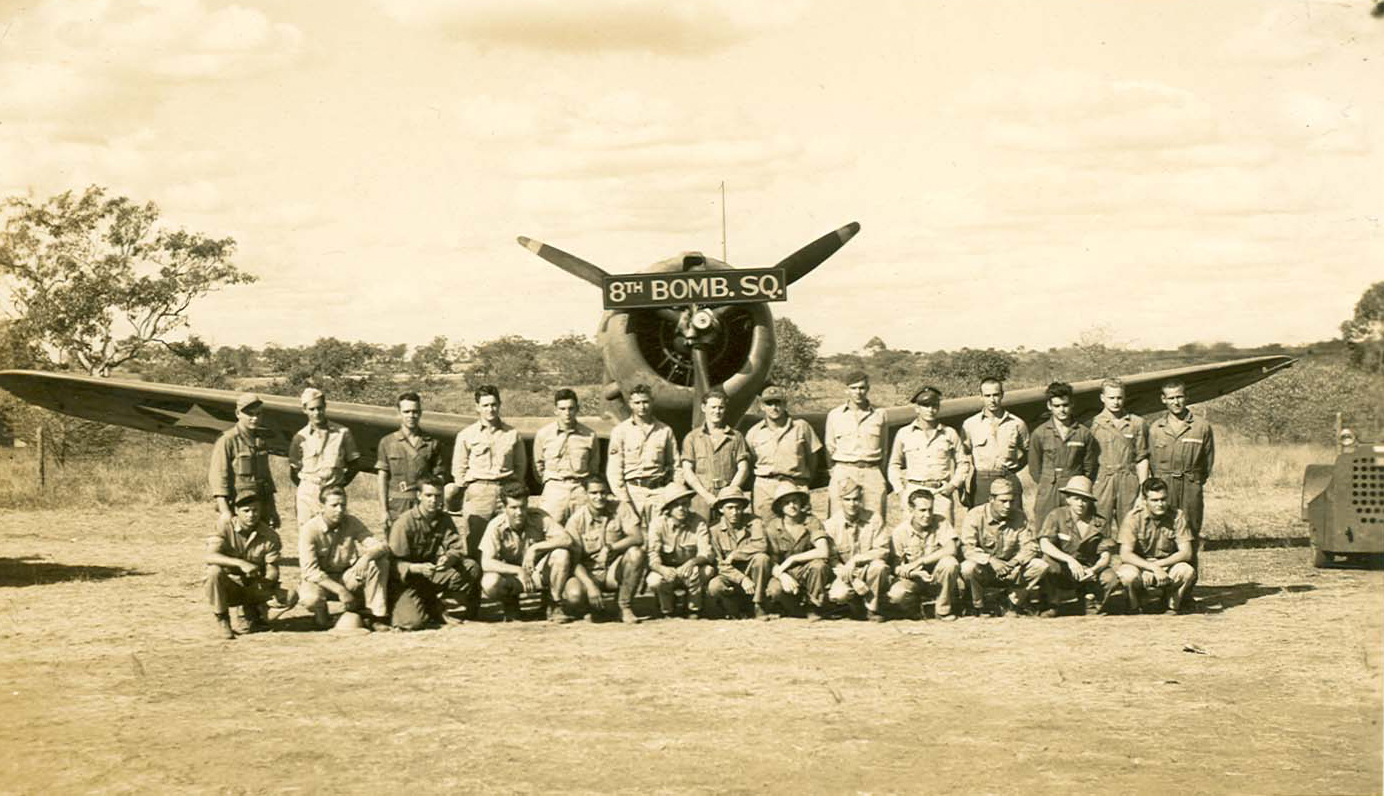 Aerial gunners stationed at Charters Towers with the 8th Bombardment Squadron, assigned to the 3rd Bombardment Group during World War II, flew in the Douglas A-24 attack bomber. (Photo courtesy of 3rd Wing History Office)